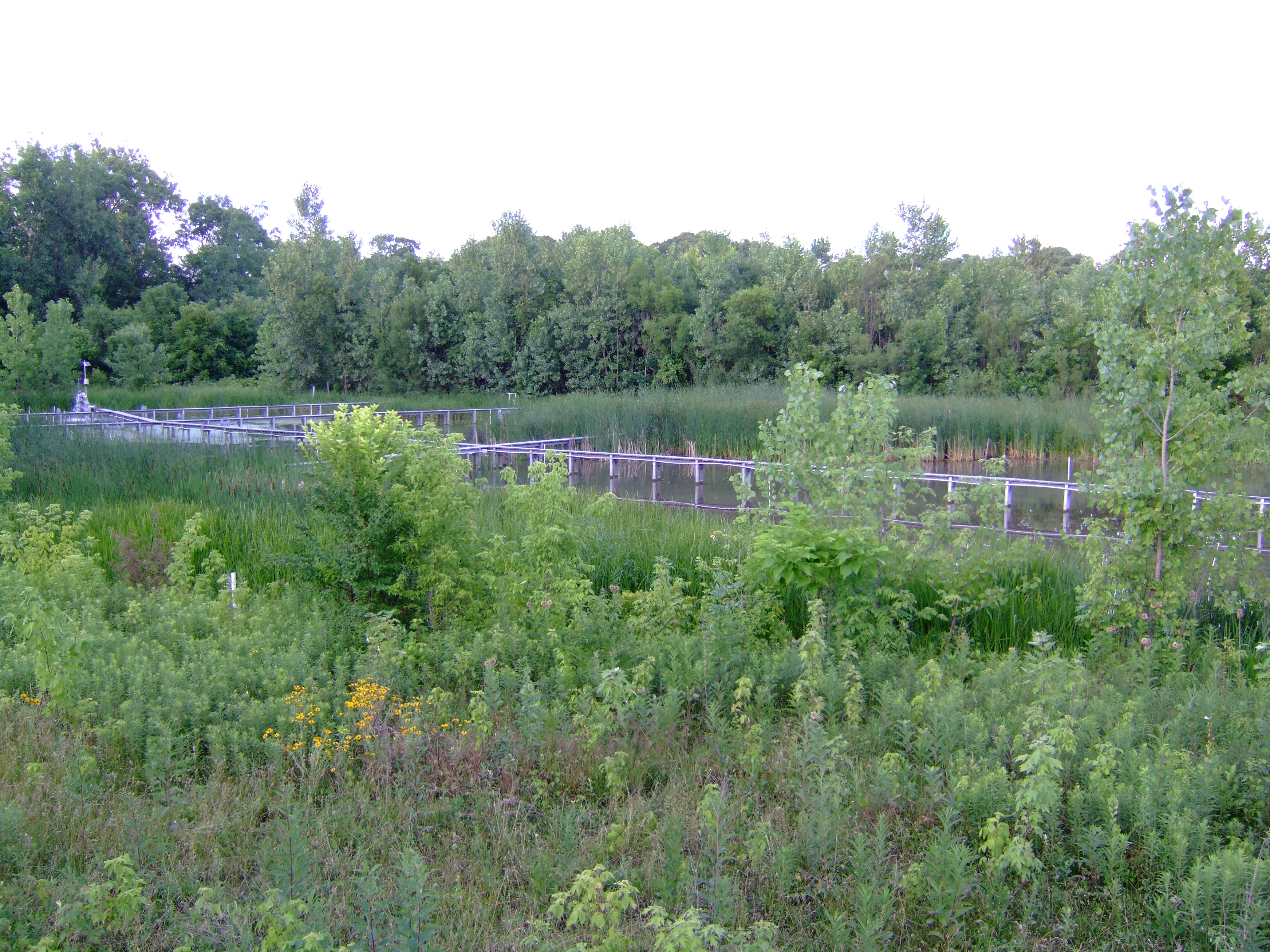 Experimental Wetland 1 at the Olentangy River Wetland Research Park, Columbus. Self made photo.